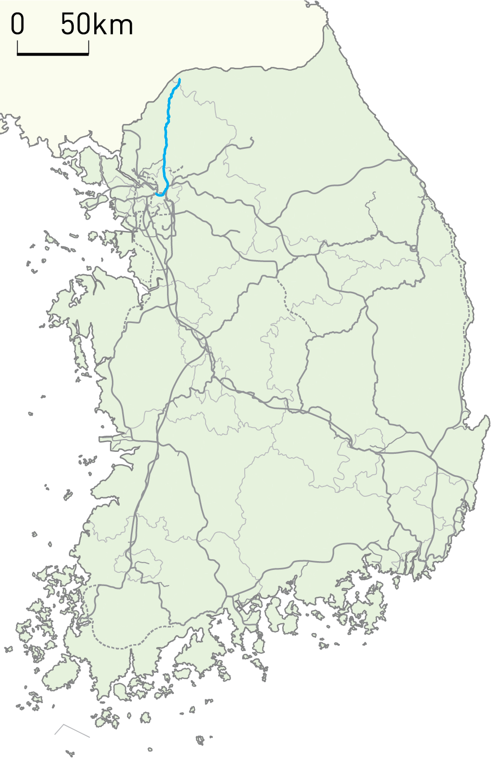 Korail Gyeongjeon Line Routemap